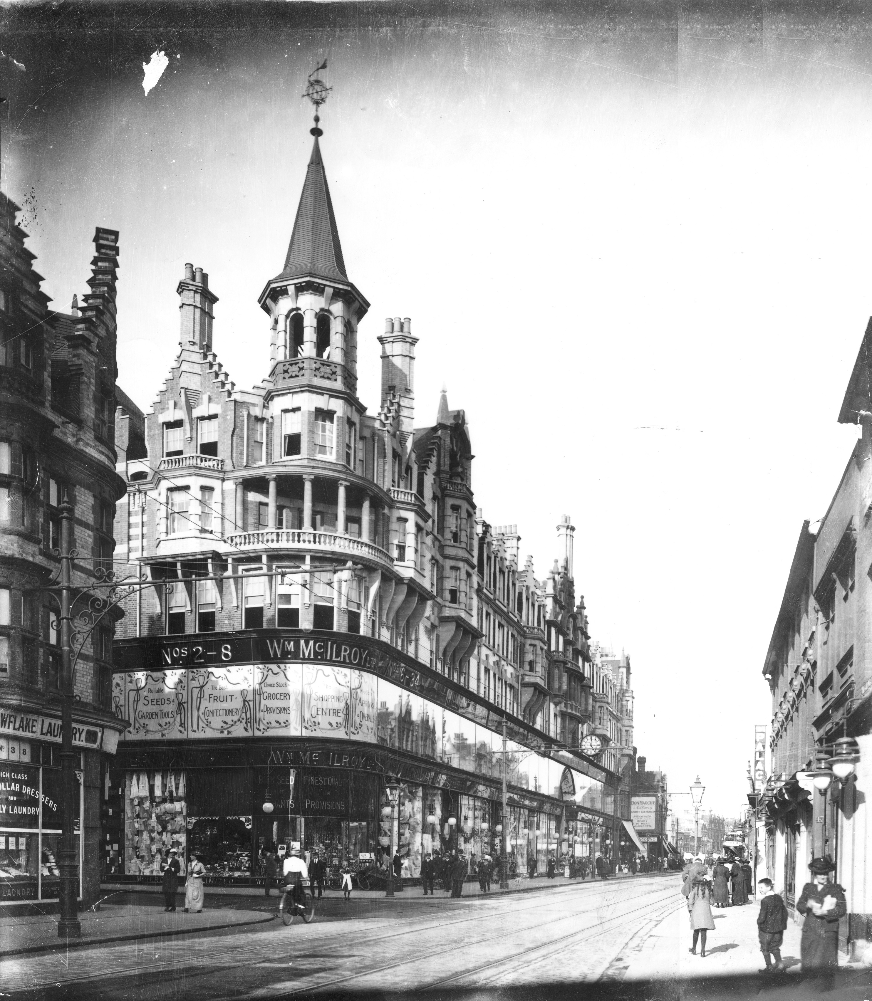 Oxford Road, Reading. North side, c. 1920. Nos. 34, 32, 30, 28, 26, 24, 22, 20, 18, 16, 14, 12, 10, 8 and 6, and Nos. 8, 6, 4 and 2 Cheapside (the department store of William McIlroy Ltd.) seen from opposite the corner of Cheapside. Part of No. 36 Oxford Road (The Snowflake Laundry) is visible. 1920-1929 : photograph by Walton Adams. There is a postcard version at Dynix 1221711.